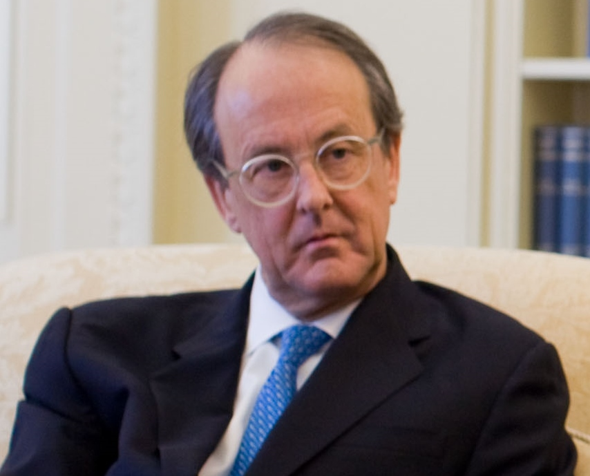 Description from original: "President Barack Obama meets with National Commission on Fiscal Responsibility and Reform co-chairs Erskine Bowles, left, and Alan Simpson in the Oval Office, Feb. 18, 2010, before the public announcement. (Official White House Photo by Pete Souza)"